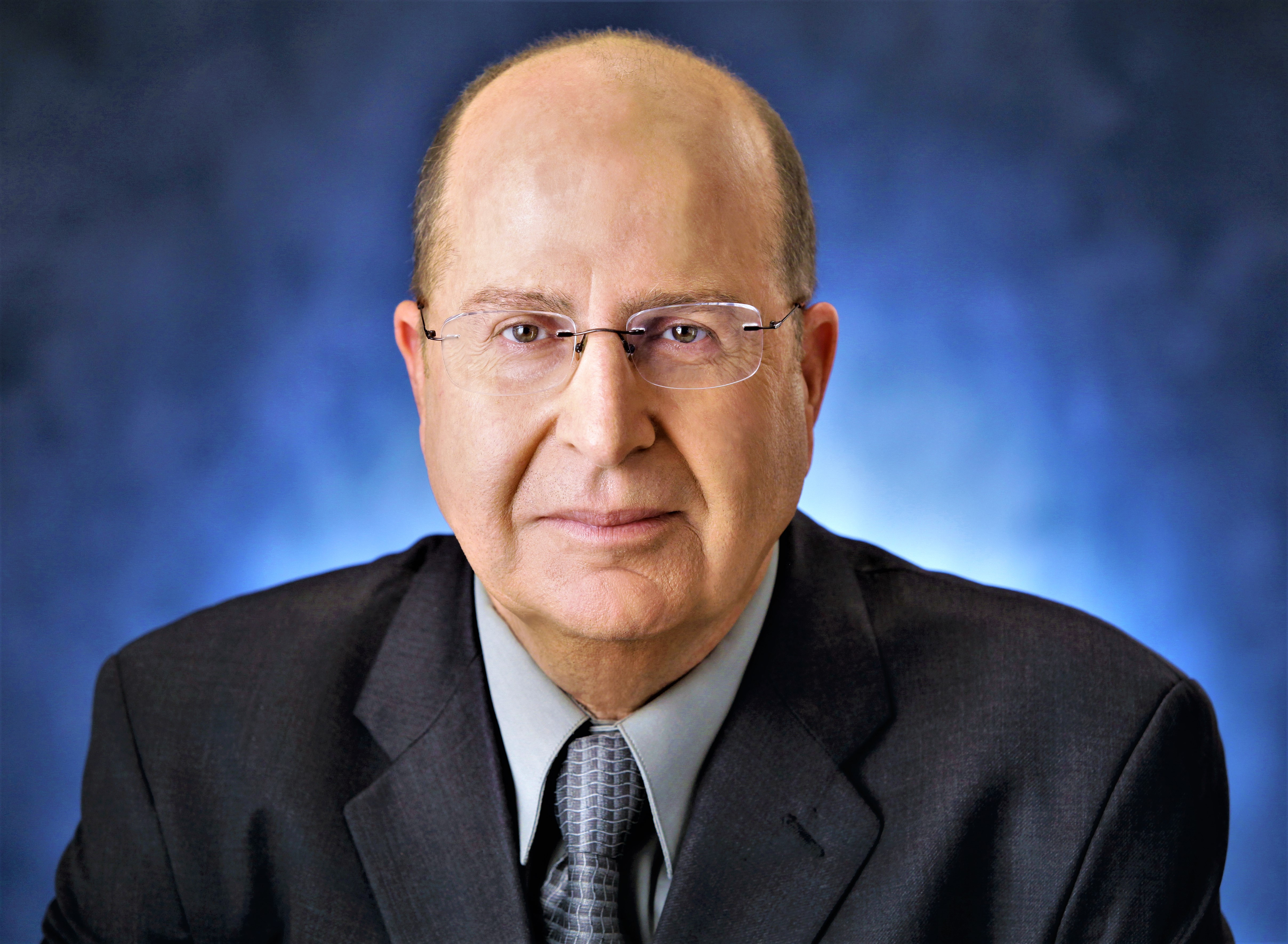 Moshe Yaalon, Former IDF chief of staff